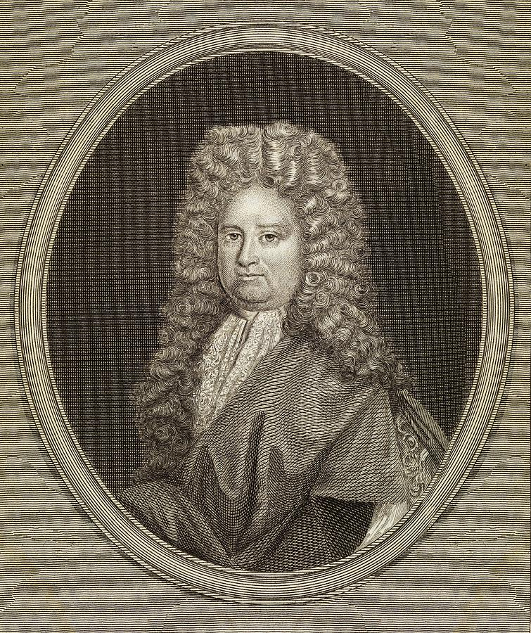 Portrait of Richard Richardson (1663–1741), English physician, botanist and antiquarian.